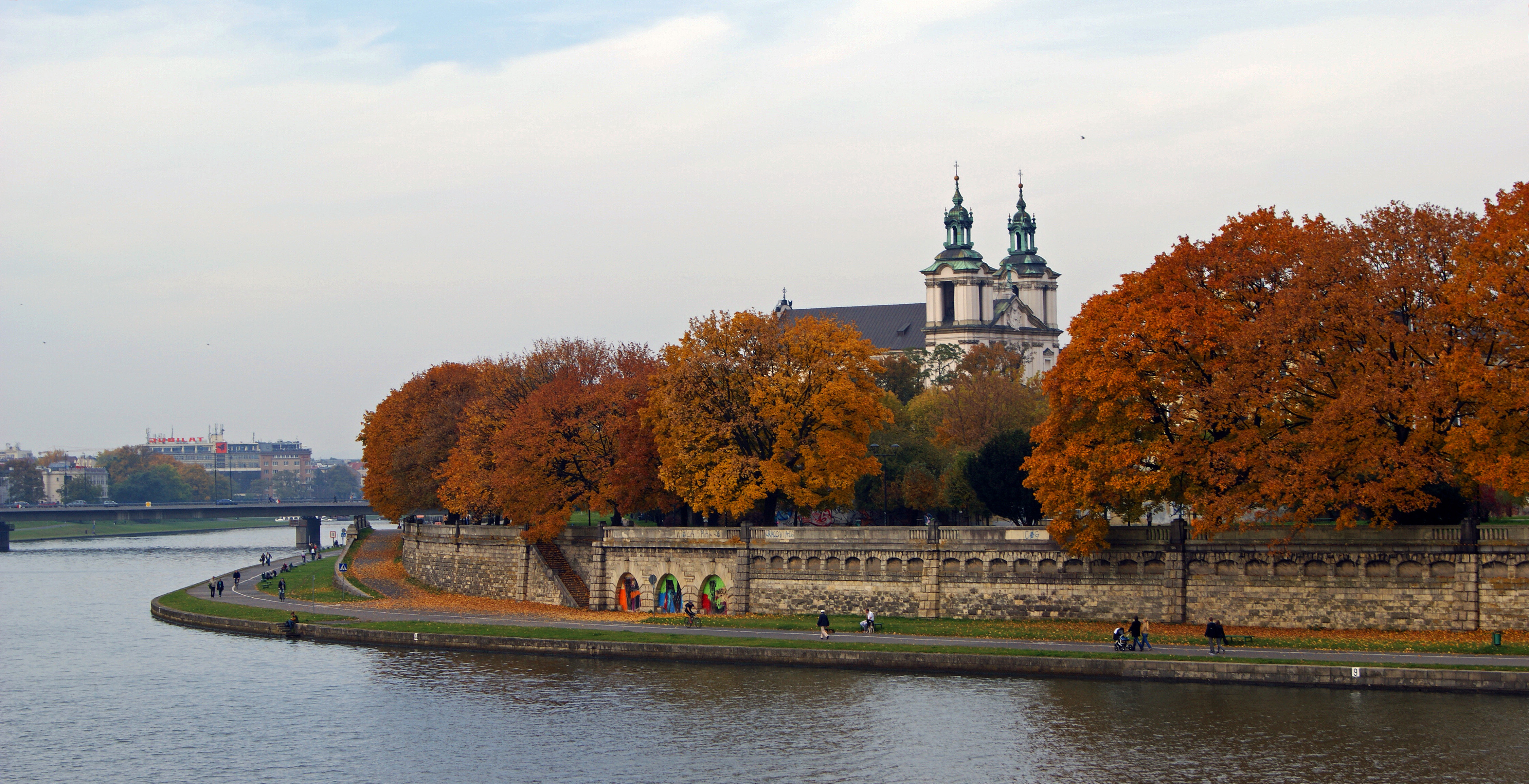 Inflancki boulevard, Krakow, Poland